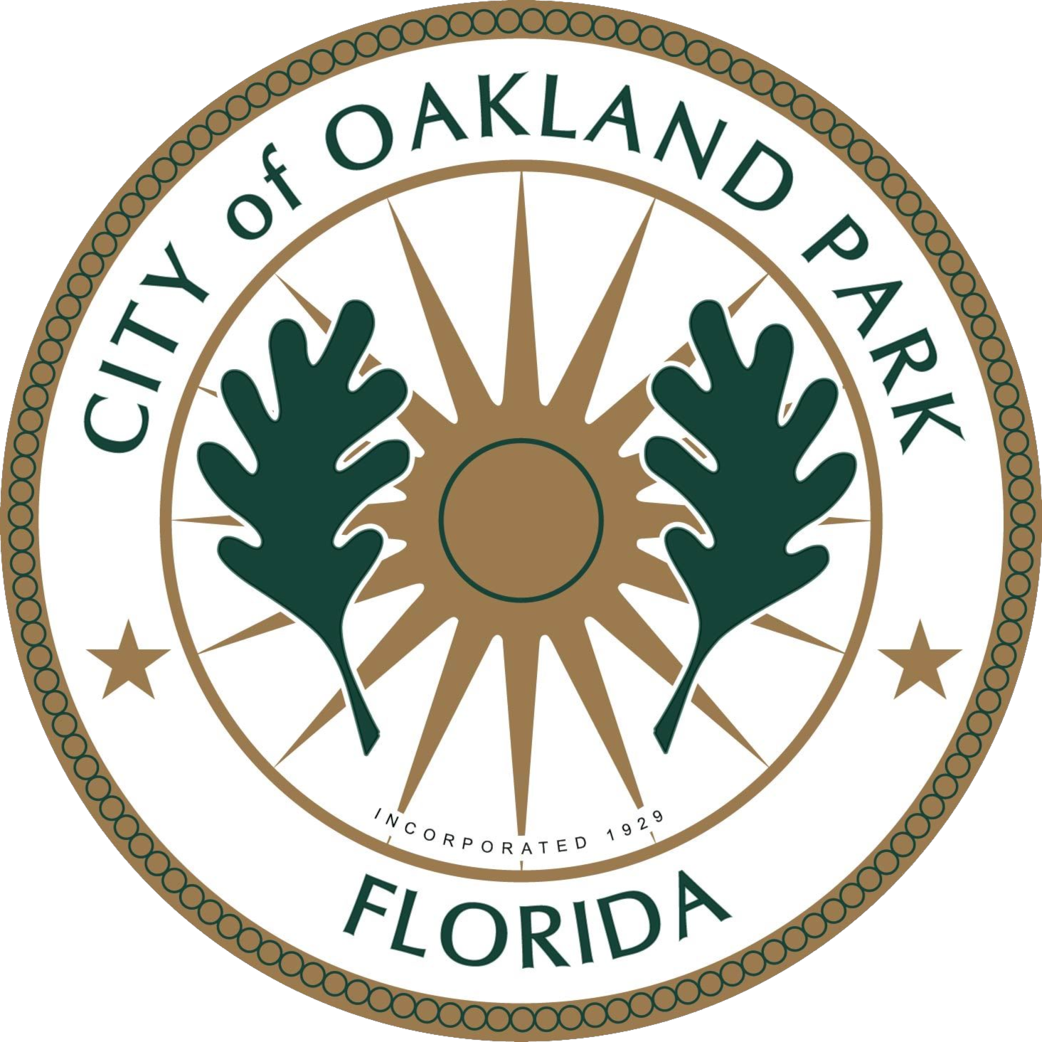 The official city seal of Oakland Park, Florida.